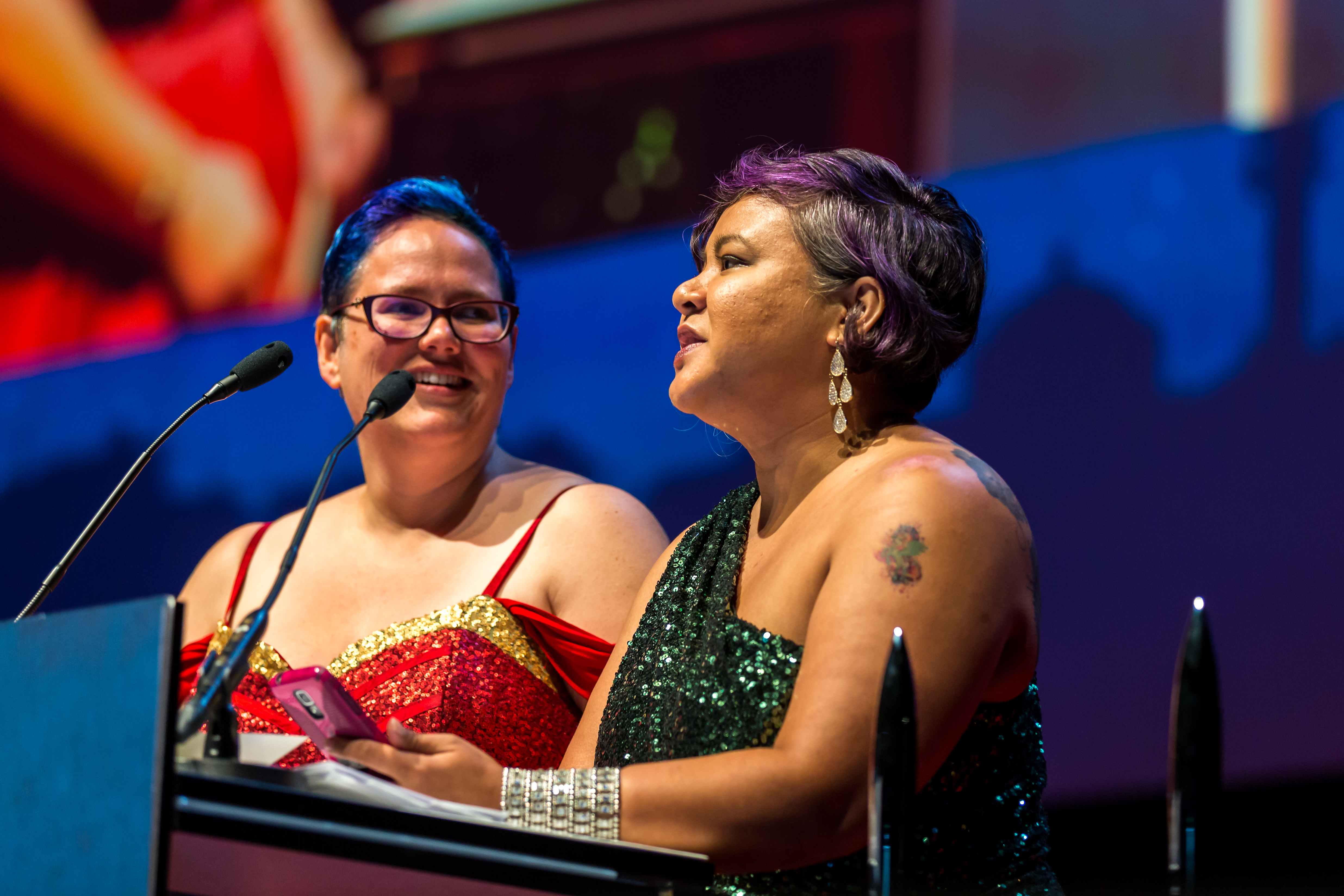 Julia Rios, Michi Trota, for Uncanny Magazine, at the Hugo Award Ceremoy at Worldcon in Helsinki.